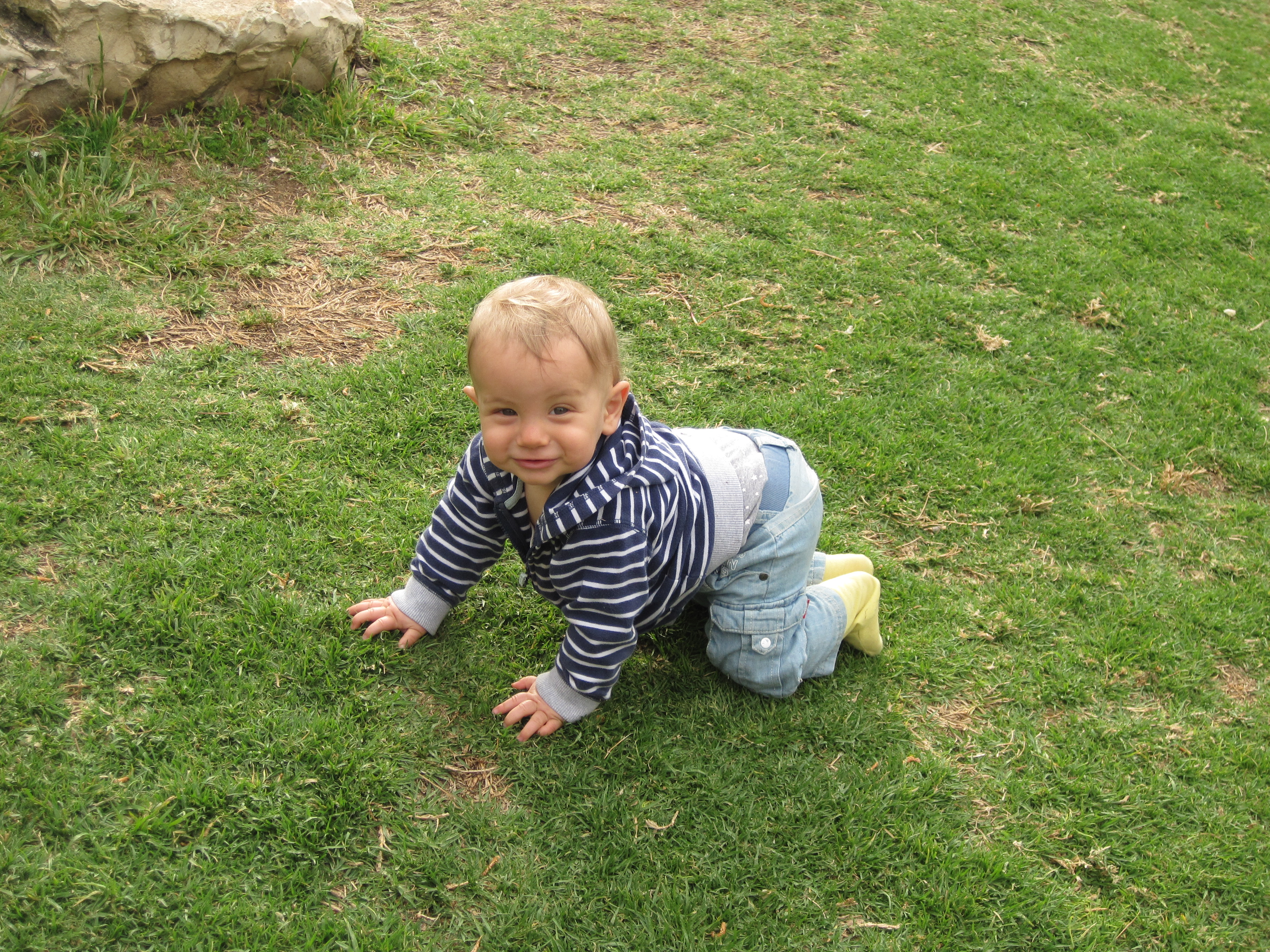 A 9 - month - old baby crawls